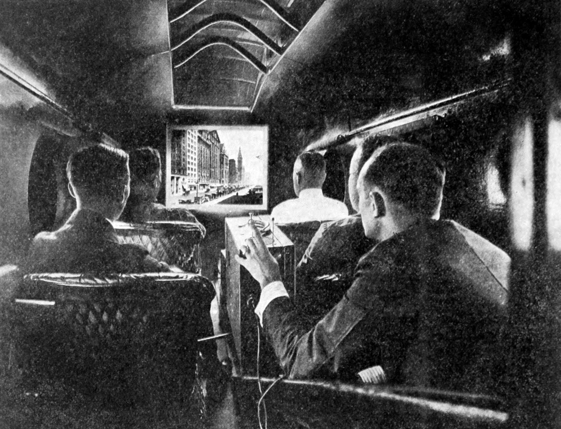 Photograph of the first in-flight movie, a screening of Howdy Chicago (Rothacker Film Company) as part of the Pageant of Progress Exposition in Chicago July 30 – August 14, 1921. Caption reads as follows:A FLYING THEATREWhat is believed to be the first aerial motion picture show was given on board an eleven passenger hydroplane which flew at the Chicago Pageant of Progress. A Rothacker produced film comprised the first picture program, and was presented while the plane was 2,000 feet in the air. The picture was "Howdy Chicago." A. L. Parker, "publicity person" for Rothacker Film Co., staged the stunt.